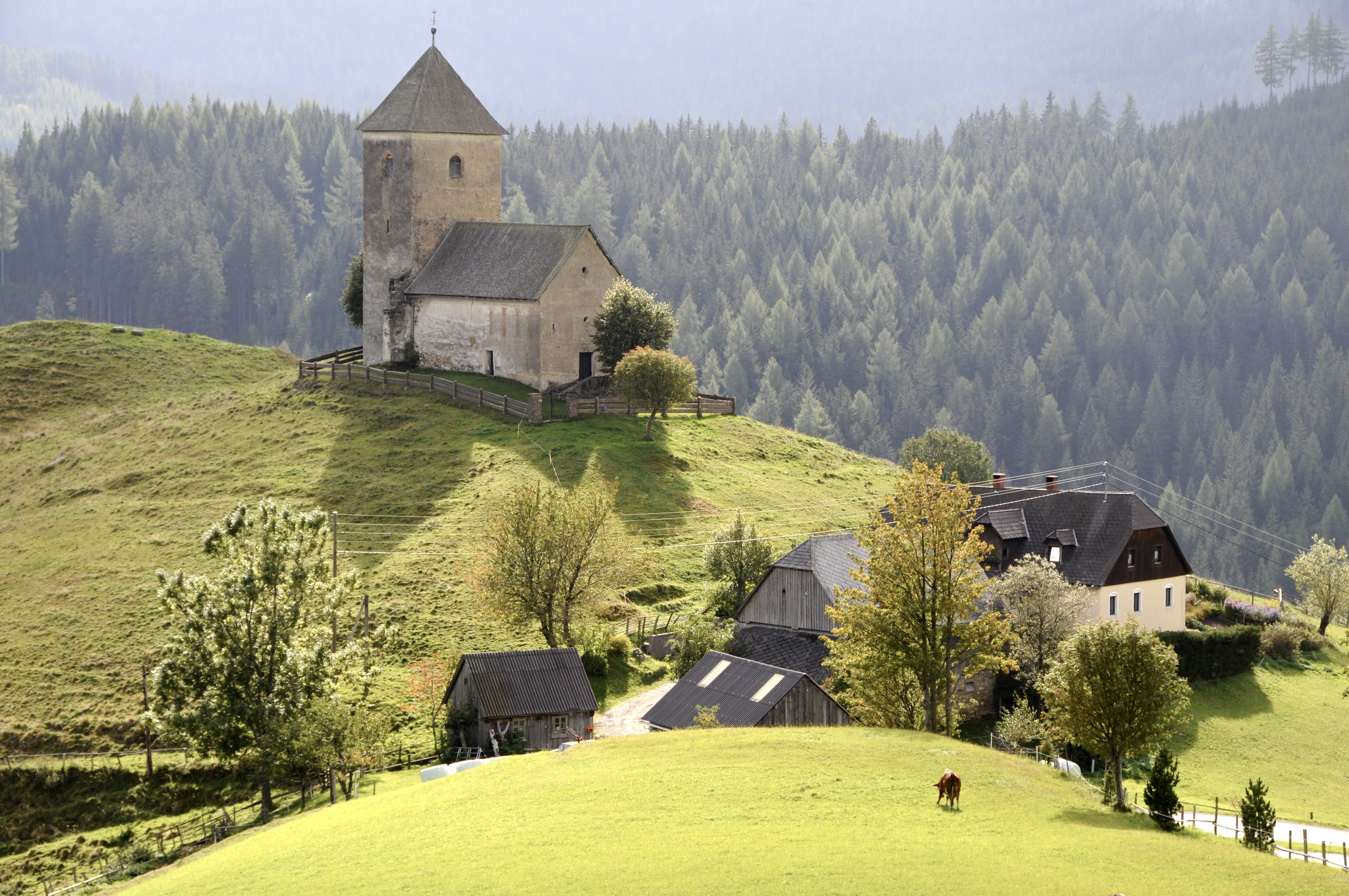 Subsidiary church Saint Oswald at Sommerau, municipality Reichenfels, district Wolfsberg, Carinthia / Austria / EU